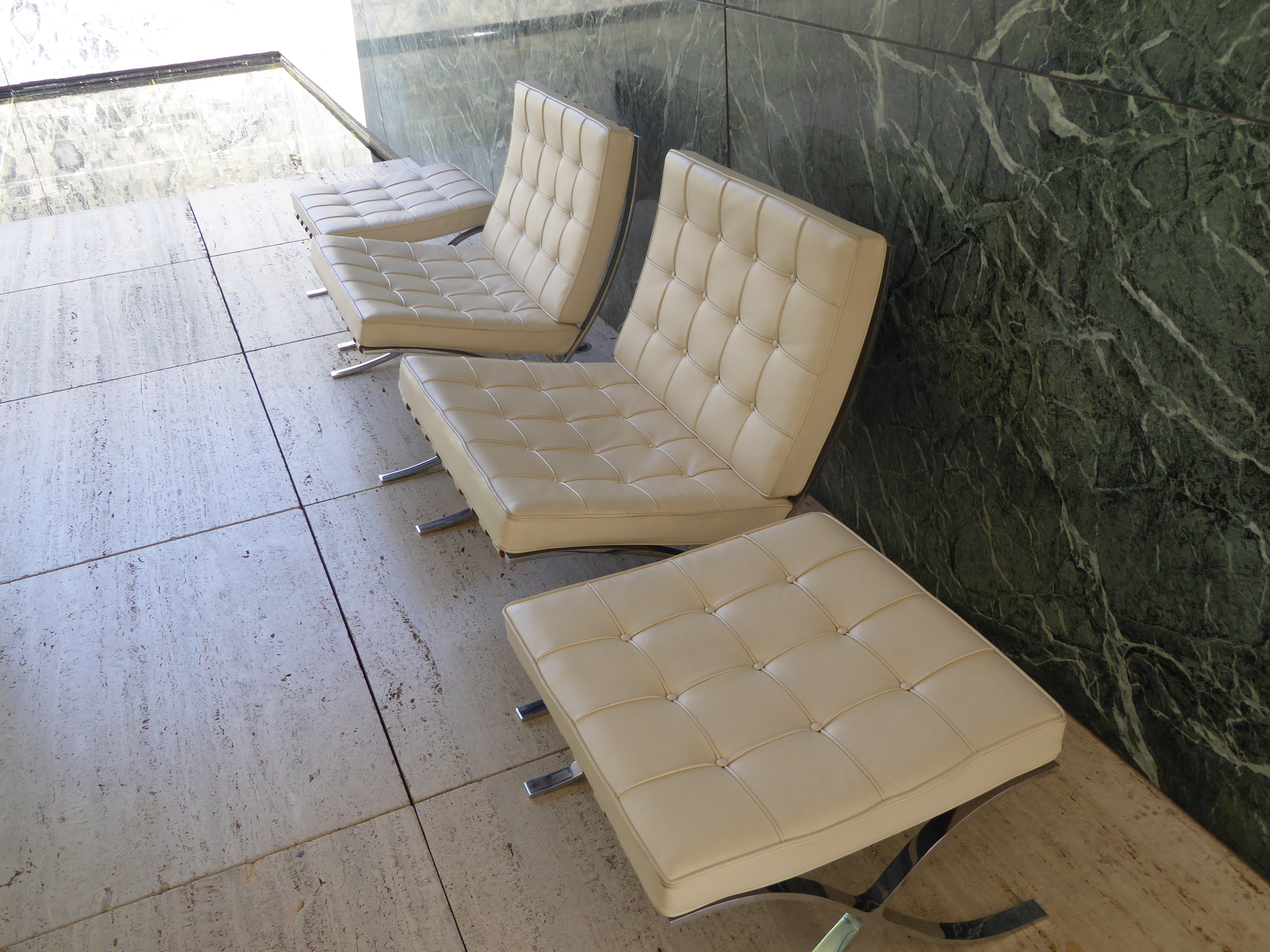 Barcelona chairs, Barcelona-Pavillon, Barcelona, Catalonia, July 2014